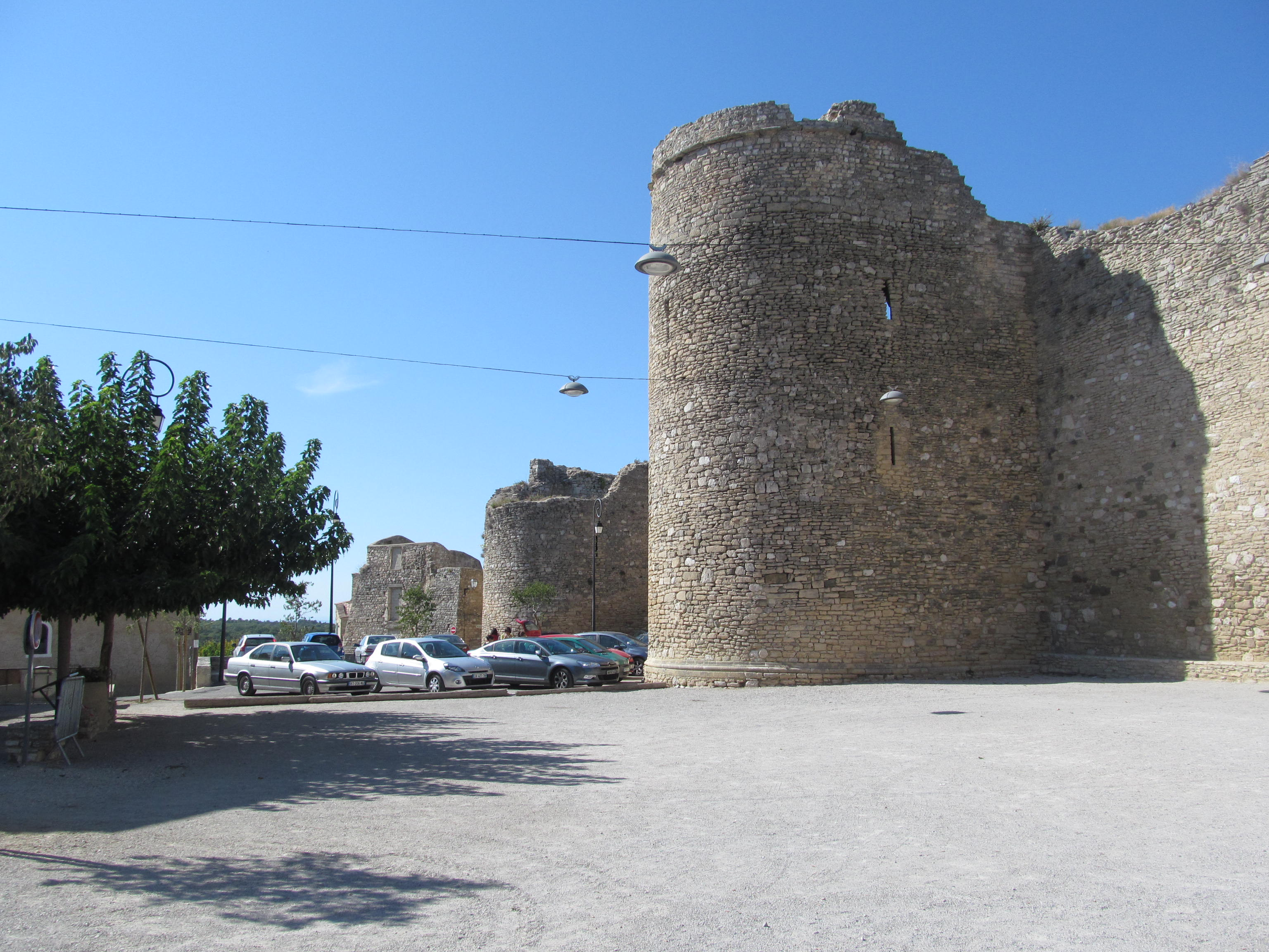 Town Walls